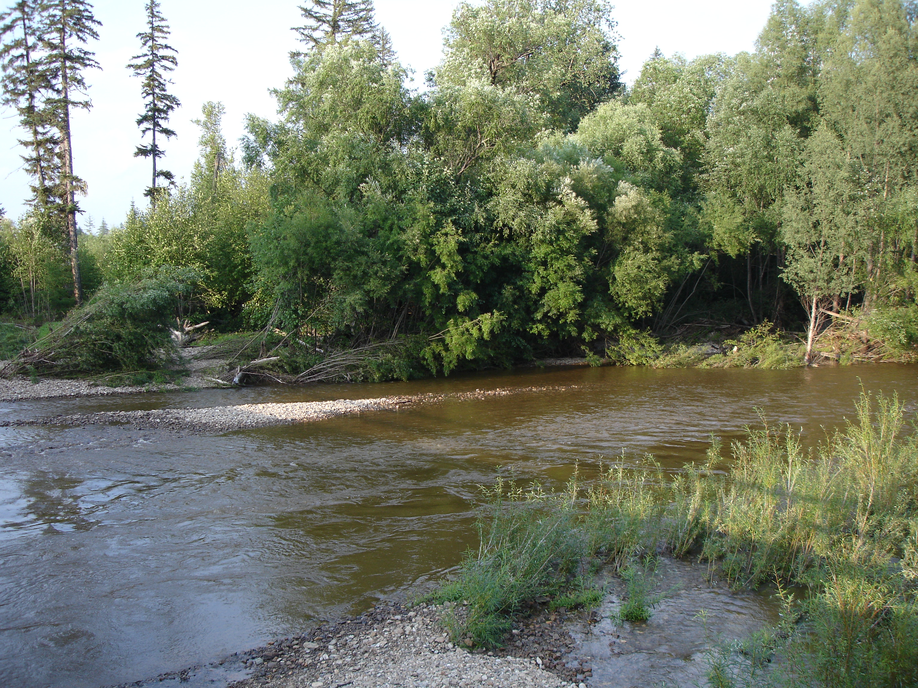 Category:Taiga in RussiaTaiga forest of Russian Far East, near Imeni Poliny Osipenko village, Khabarovsk Krai.